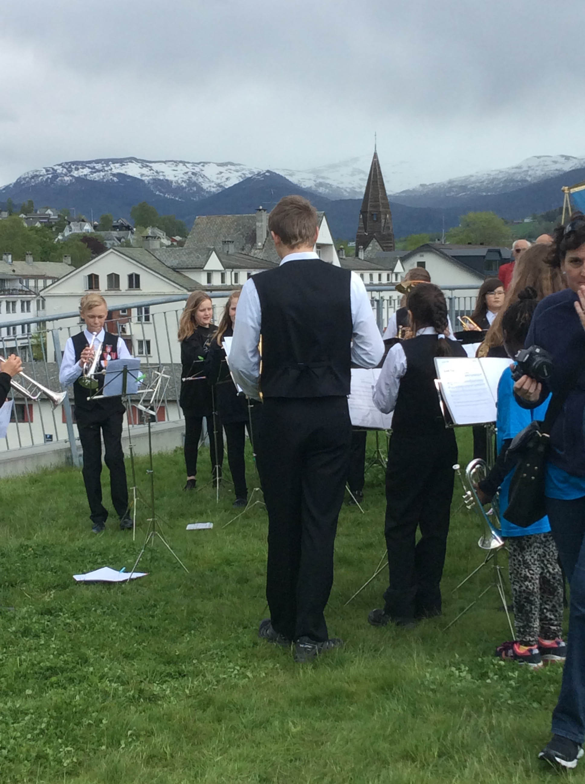 Children's Brass Band performs "You Ain't Nothing but a Hound Dog" in a grassy perch over the Voss Kulturhus in Norway